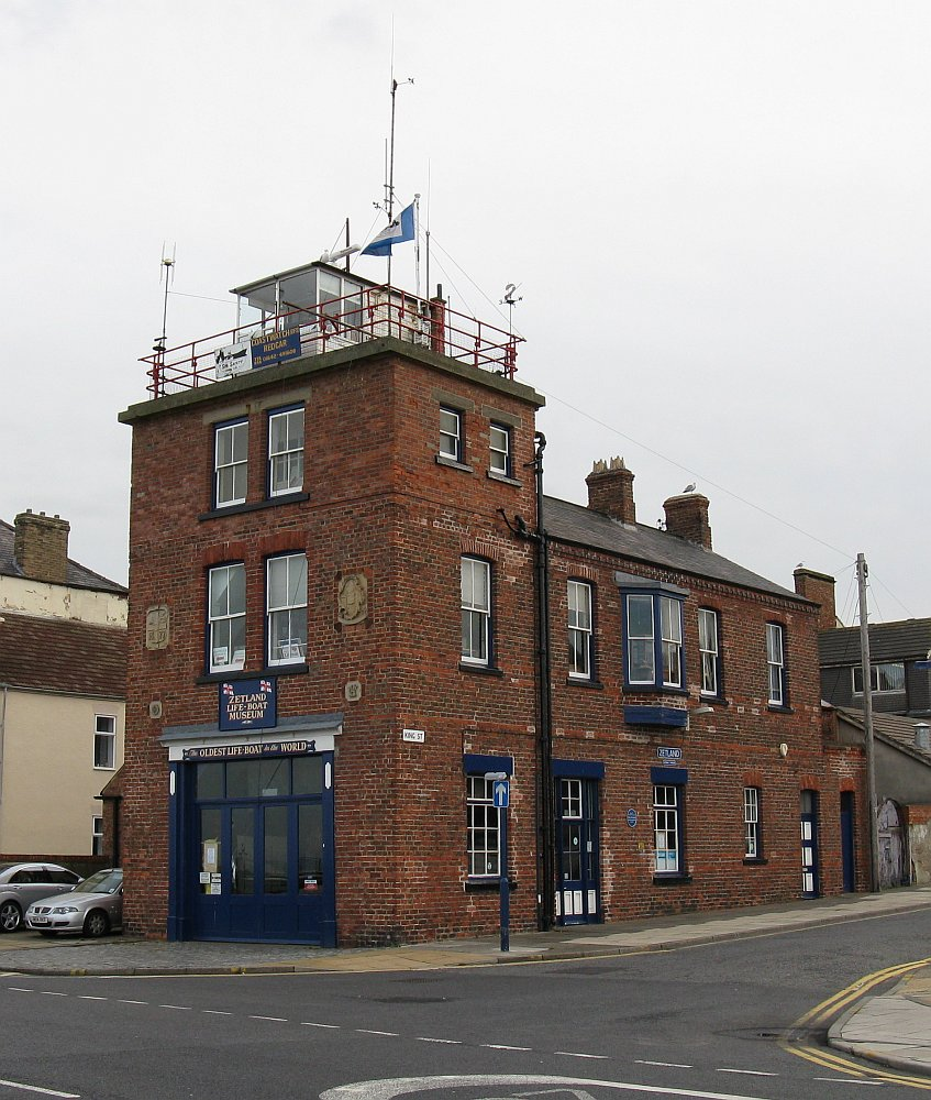 The Zetland Lifeboat museum. Grade II listed building and home to the Zetland lifeboat the oldest existing lifeboat in the world.